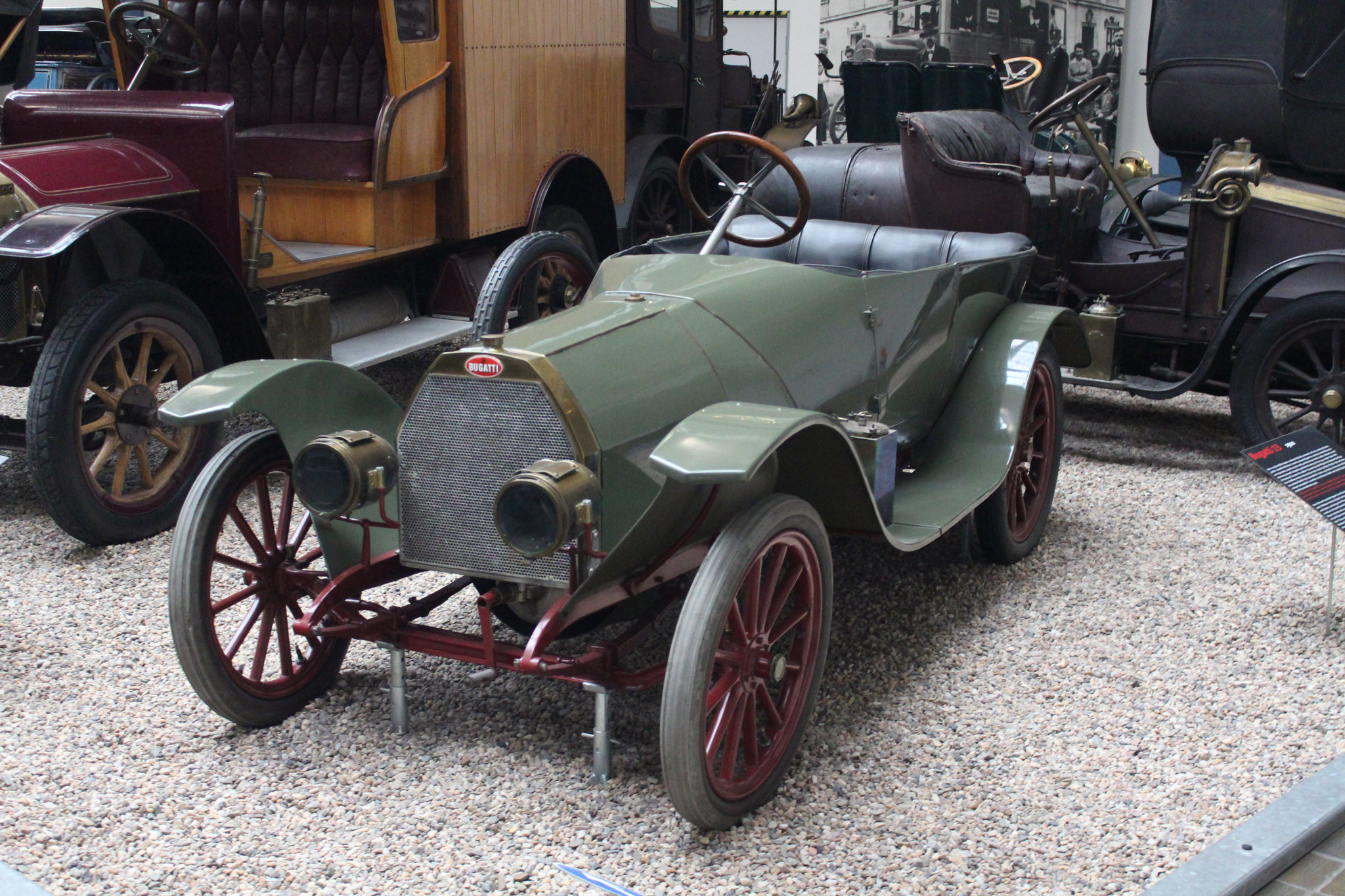 This image has been originally created as the illustration for Französischer Supersportwagen entry in crosswords dictionary . It has been released under CC-BY-3.0 license.